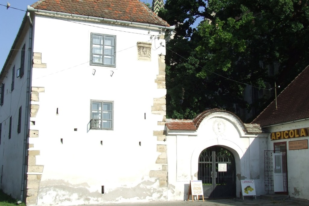 View from Sebeş, Alba County Romania